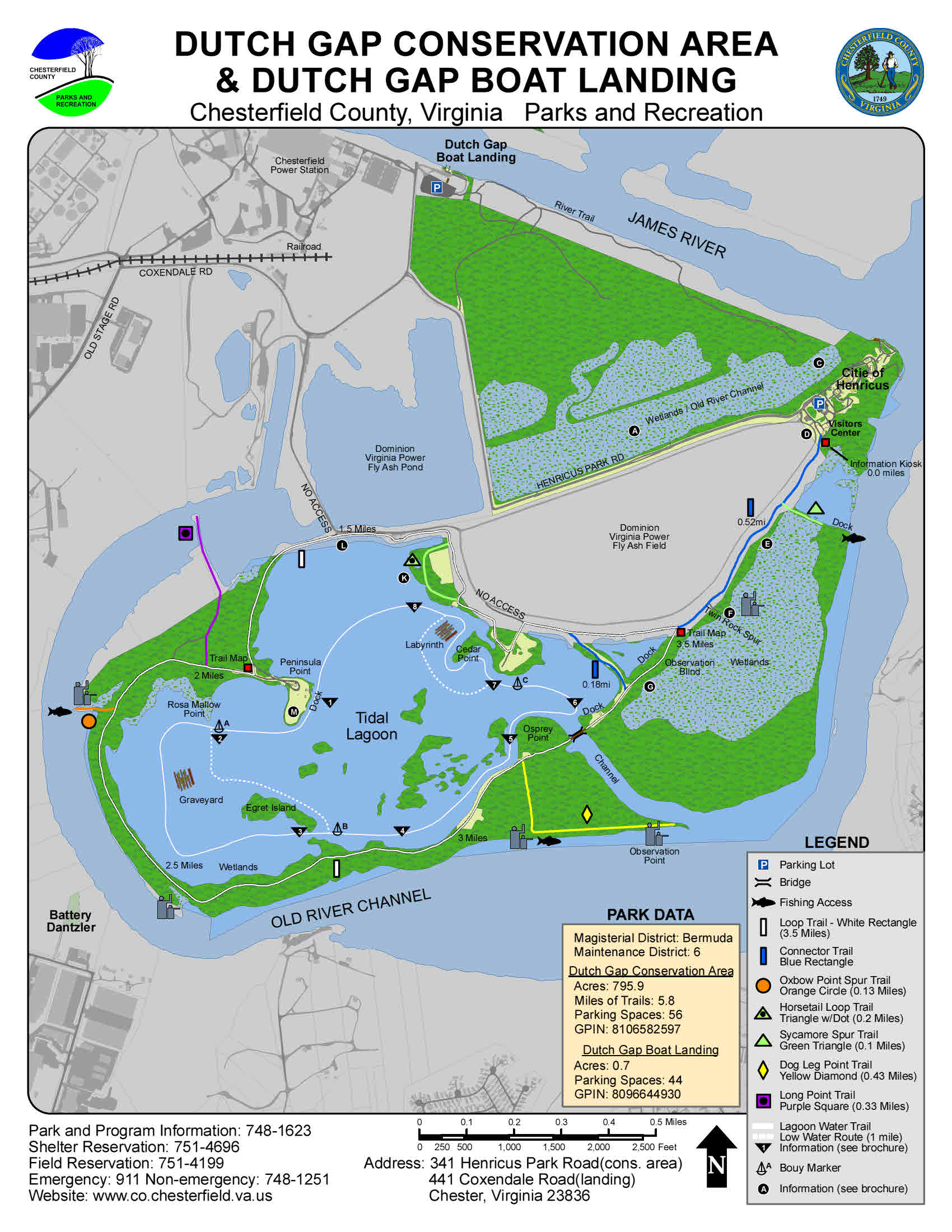 This is a drawing by Chesterfield County, Virginia of Farrar's Island on the James River, which today is the Dutch Gap Conservation Area and Boat Landing and site of the historic Henricus City.